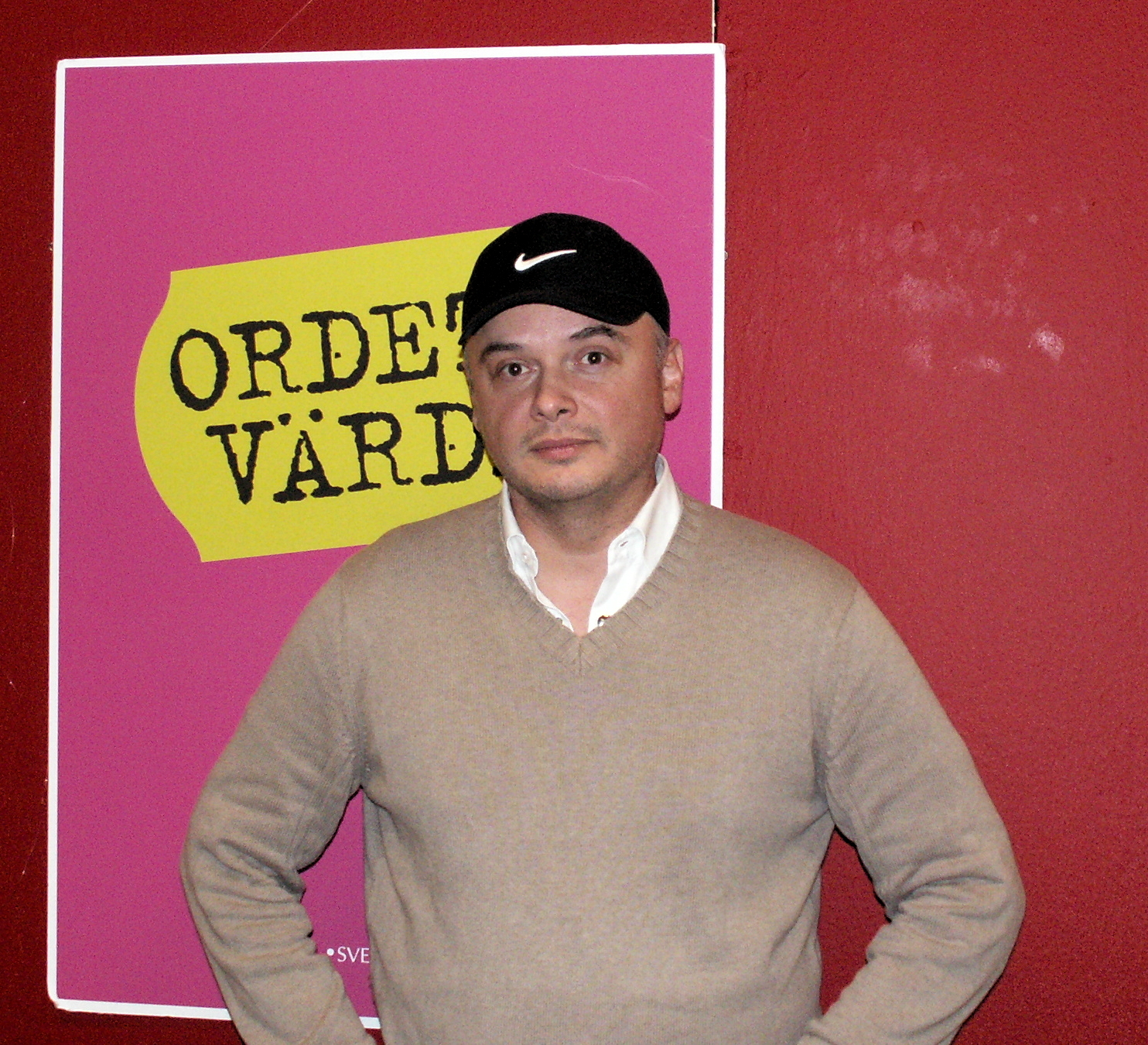 Cătălin Dorian Florescu at the Göteborg Book Fair 2013.